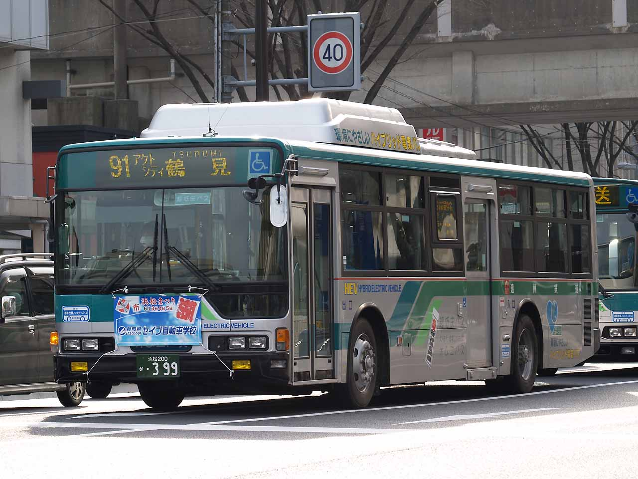 Mitsubishi Fuso Aero Star HEV (Electric Hybrid Vehicle), product model KL-MP37JM_kai. License plate: SZH200 KA-399 Place: Neighbour of JR Hamamatsu station: Naka ward, Hamamatsu city, Shizuoka Japan 遠州鉄道の三菱ふそうエアロスターHEV。2002年のモニター車借り入れを経て2台が投入されたが、他に名鉄バスの2台と岐阜乗合自動車の1台だけという希少車。 登録番号：浜松200か・399 撮影地：静岡県浜松市中区・JR浜松駅付近